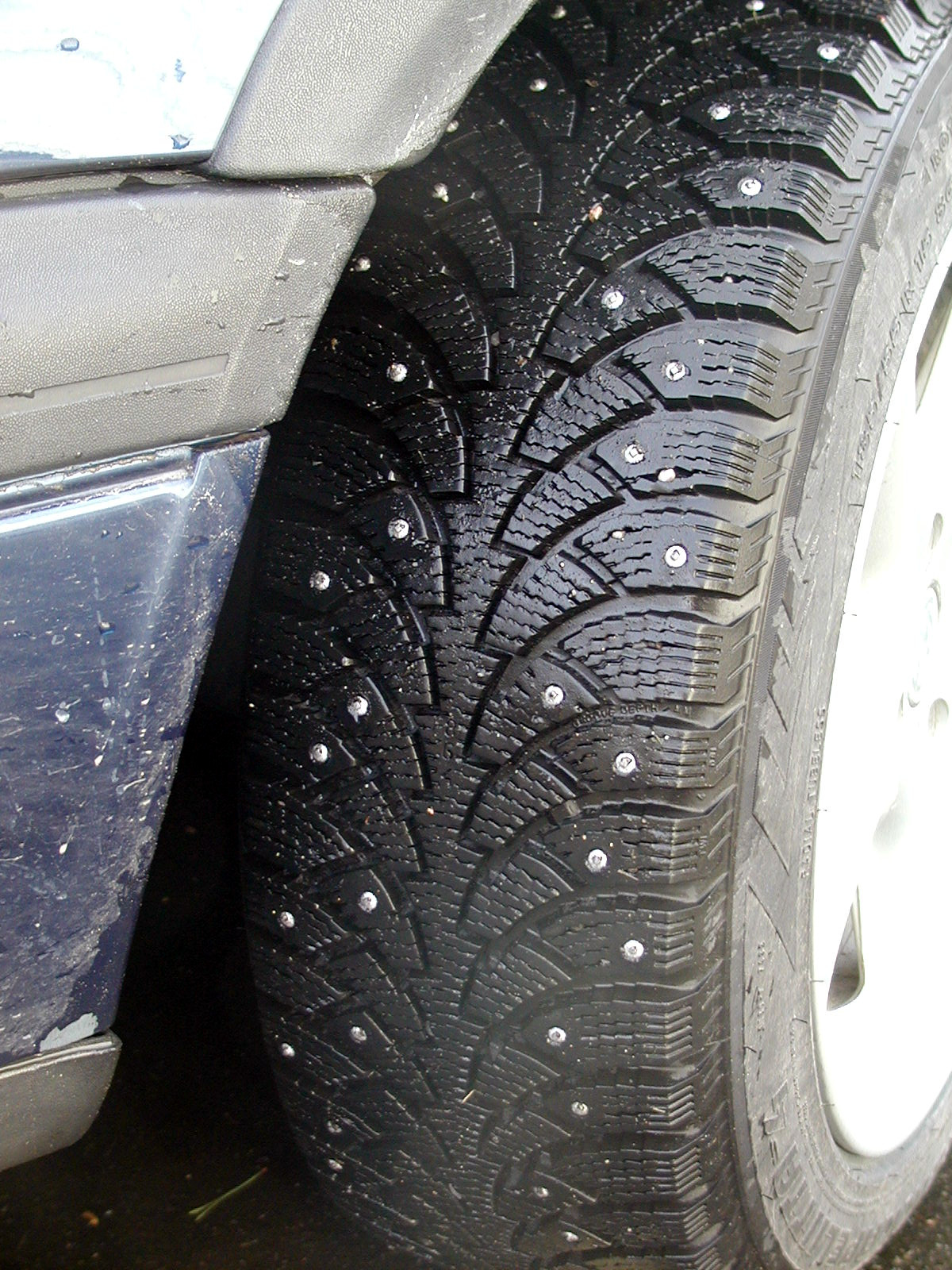 Studded tyre